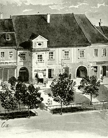 The house of Lodovico Gritti (minster of Suleyman I) in Medgyes, Transylvania